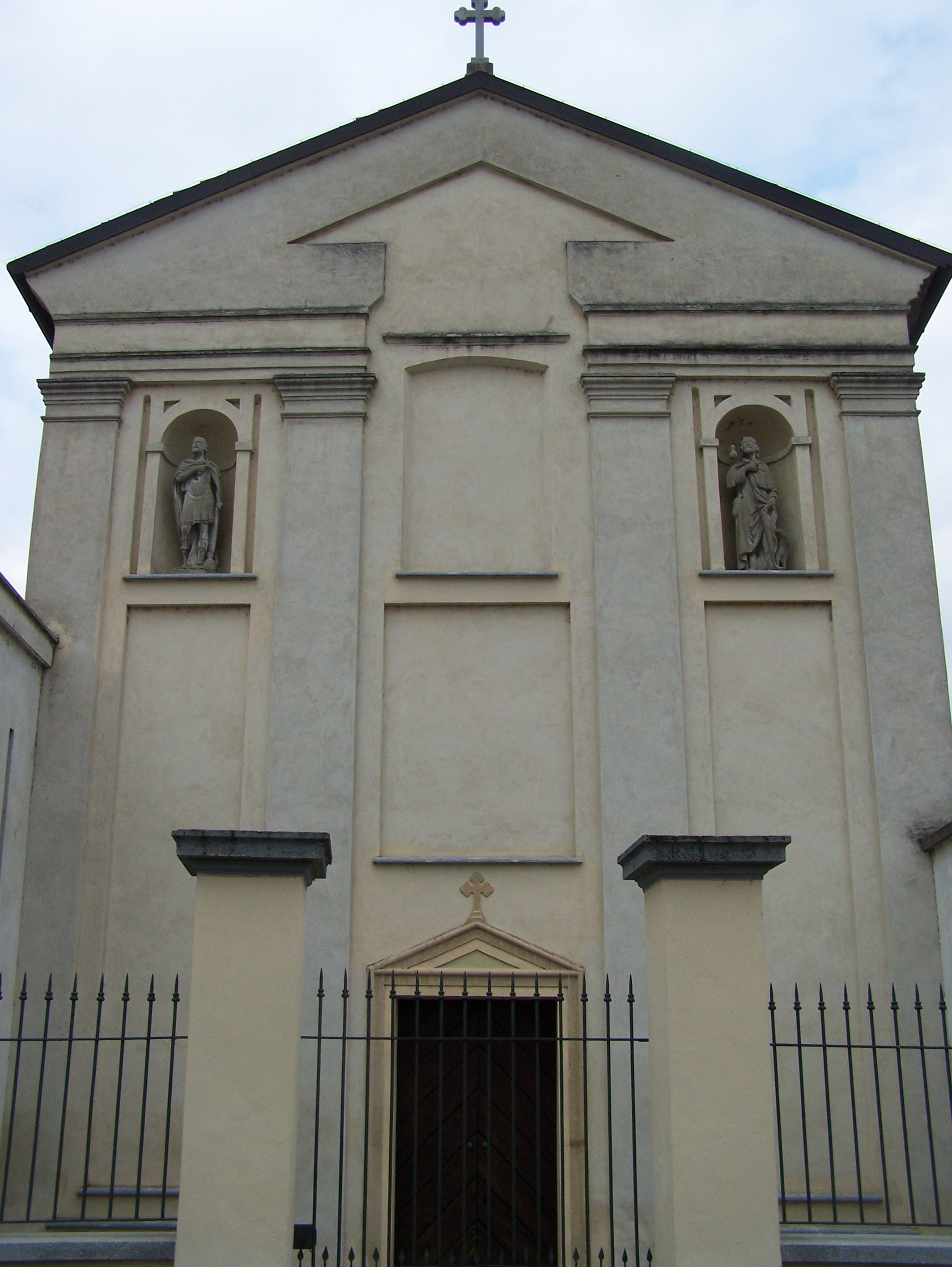 San Sebastiano's church in Corbetta (MI) - Italy